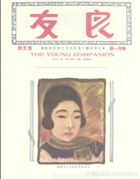 Self portrait of Liang Xueqing on the cover Liangyou magazine #5, 15 June 1926. She was the first artist to make the cover. She was also the first artist in the magazine, having appeared in the first issue. Name also Liang Hsüeh-ch'ing.